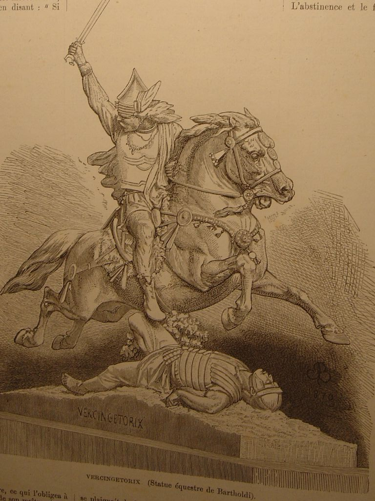 Vercingetorix par Bartholdi